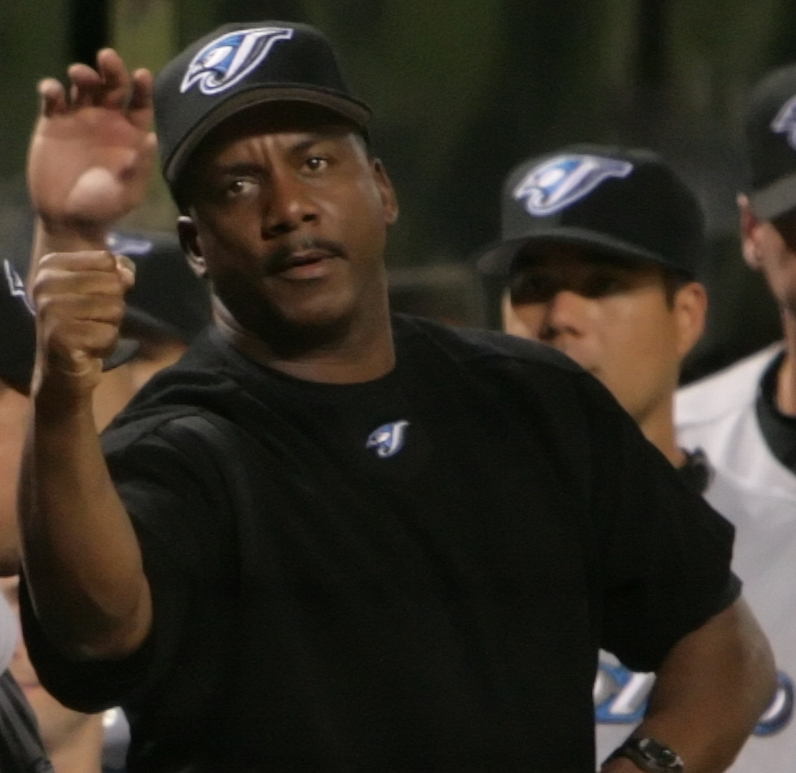 Troy Glaus of the Toronto Blue Jays is greeted by teammates and coaches in the dugout at Camden Yards in Baltimore in 2016